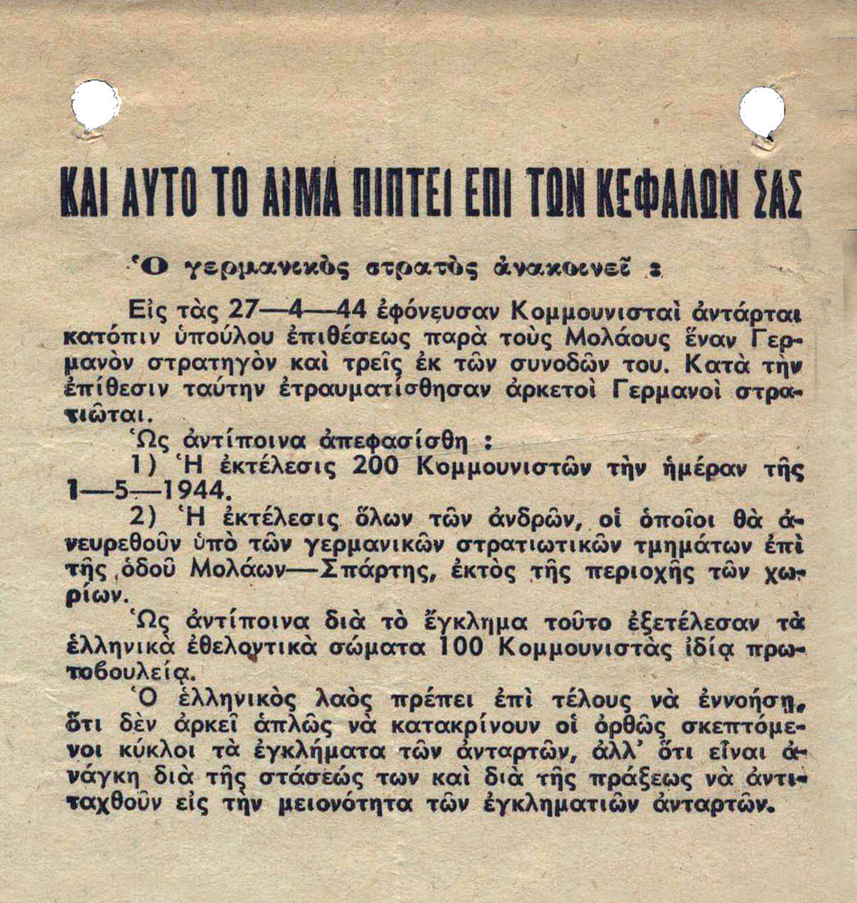 A pamphlet announcing the execution of 200 communist prisoners in Kaisariani, Athens, Greece on May 1st, 1944 by the German Occupation Forces in retaliation for the killing of a German general by Greek partizans. Original document dimensions 11 x 11 cm.